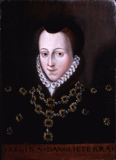 Portrait of Mary, Queen of Scots, after a face pattern by Clouet, oil on oak panel, 15 x 10 ¾ inches 38 x 27 cm. The inscription regina danglieterra, "Queen of England", indicates that the portrait was painted between the death of Mary I of England and the peace between Elizabeth I of England Elizabeth I's England and France in 1560. The source points out that Mary is wearing mourning, likely for her cousin Mary I of England.